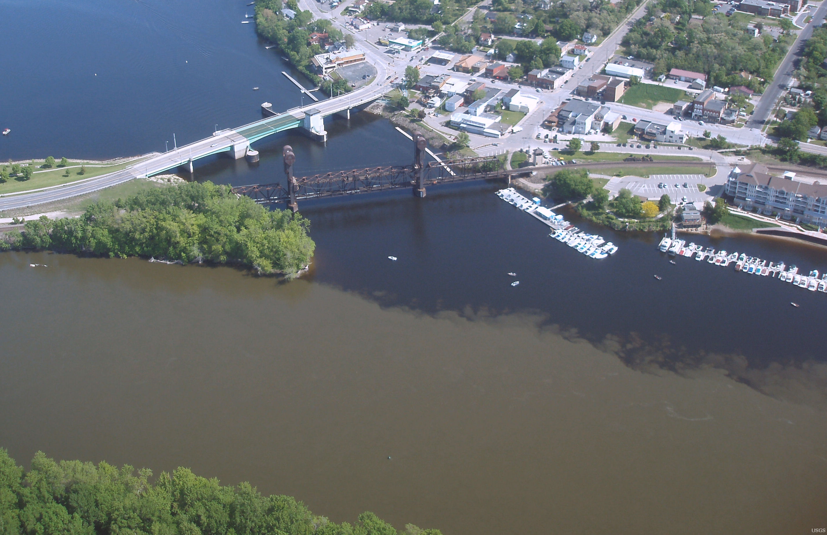 Confluence of the St. Croix and Mississippi Rivers at Prescott, Wisconsin, USA